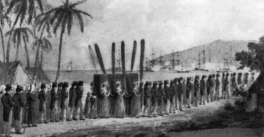 A watercolor sketch of the funeral procession of Queen Keōpūolani, who died in 1823, in Lahaina, Maui, Hawaii. The Queen was the highest-ranking wife of King Kamehameha I.